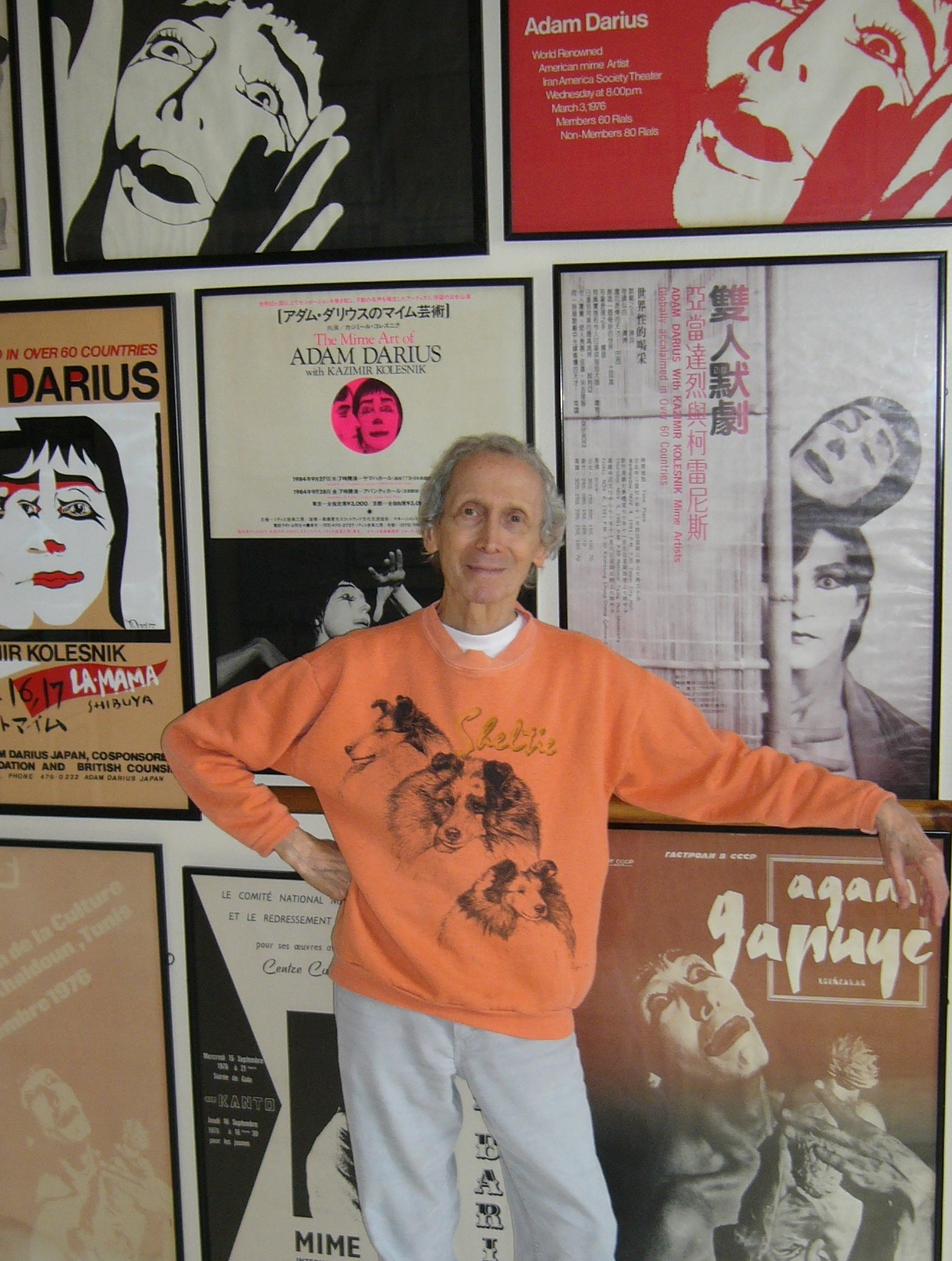 Adam Darius in his studio, Helsinki, 2007.